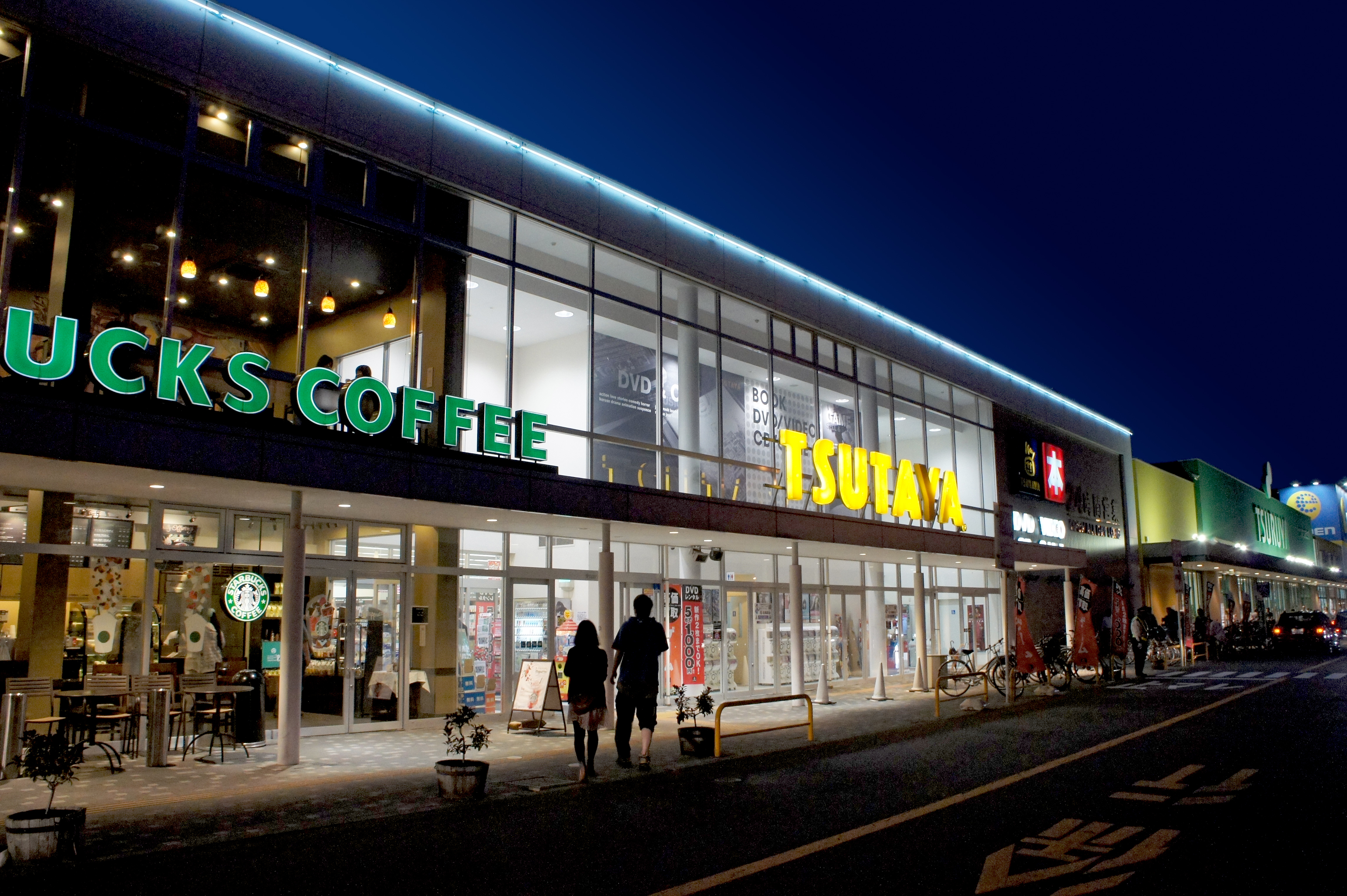 Nagisa Life Site in Matsumoto, Nagano prefecture, Japan